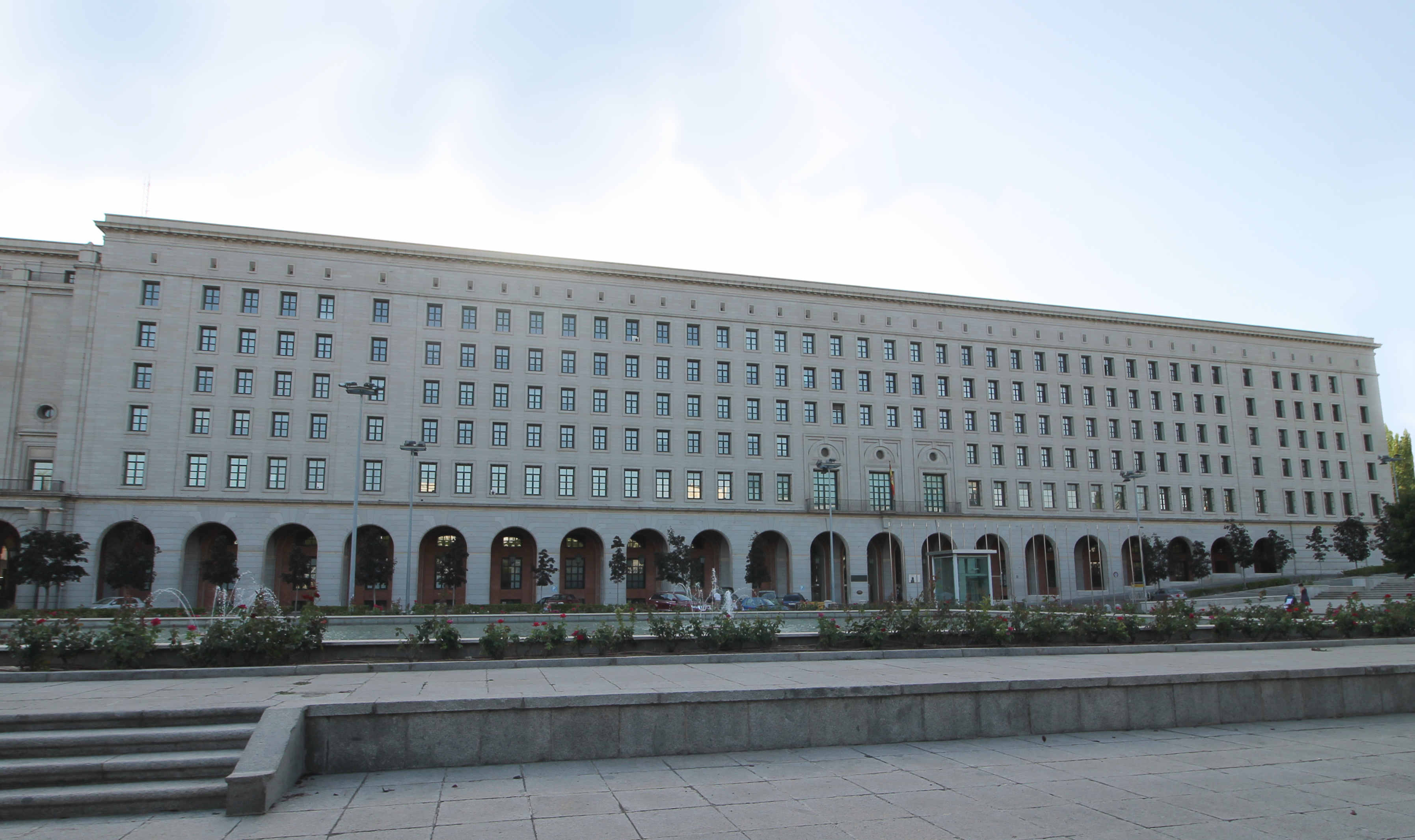 Façade of the Ministry of Public Works and Transport of Spain, at Nuevos Ministerios complex in Madrid.